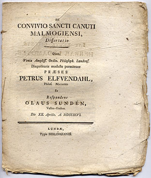 Picture of an old thesis